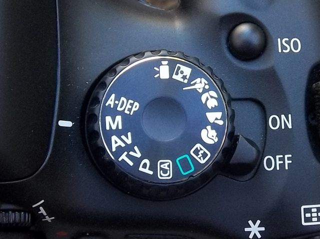 Mode dial of a Canon EOS 550D DSLR camera.